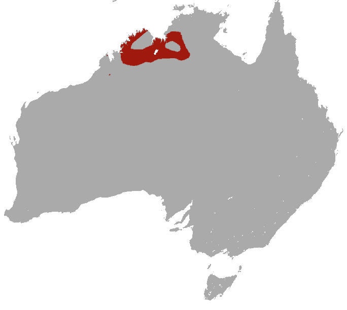 Ningbing False Antechinus (Pseudantechinus ningbing) range